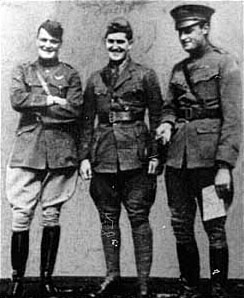 Lts. Winslow (left) and Campbell (center) of the 94th Aero Squadron with their commanding officer, Maj. John W.F. Huffer.